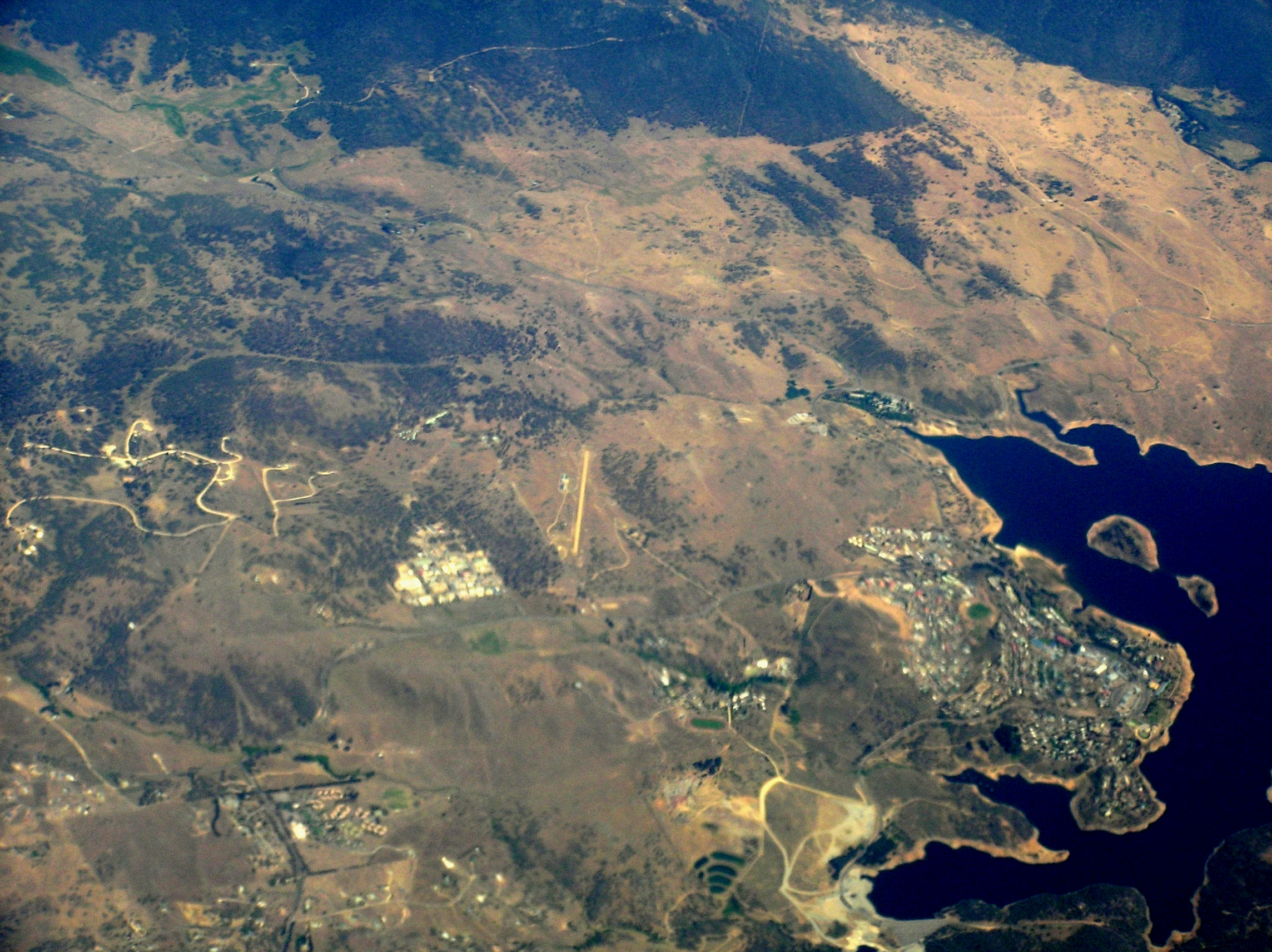 Aerial view of Jindabyne New South Wales from east